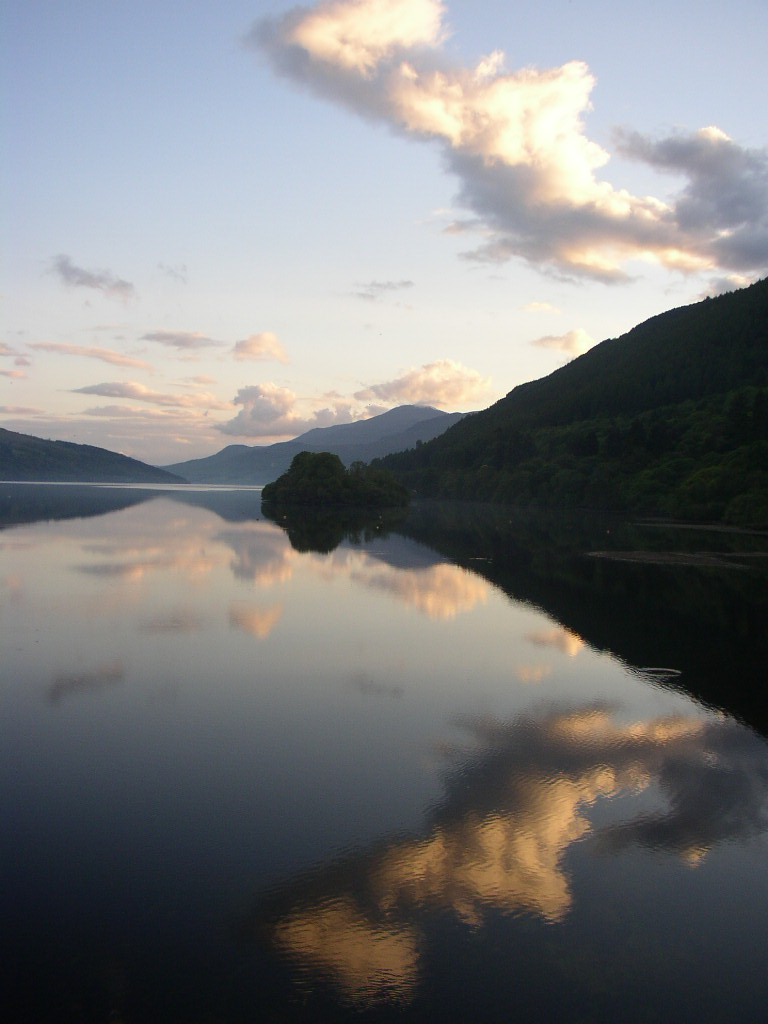 Sunset at Loch Tay: Loch Tay at sunset - May 2004, after a day of rain.